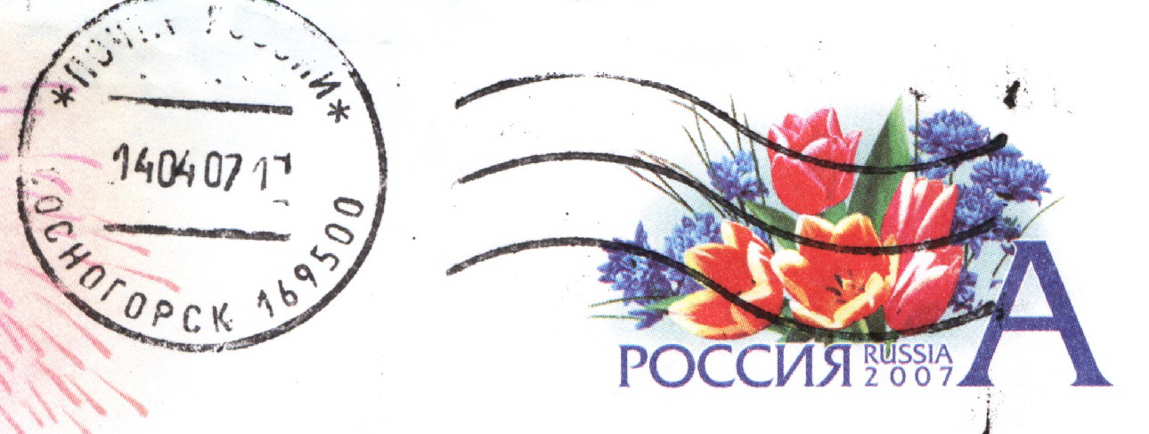 Detail of the Russian postal stationery 'Victory Day', 2007